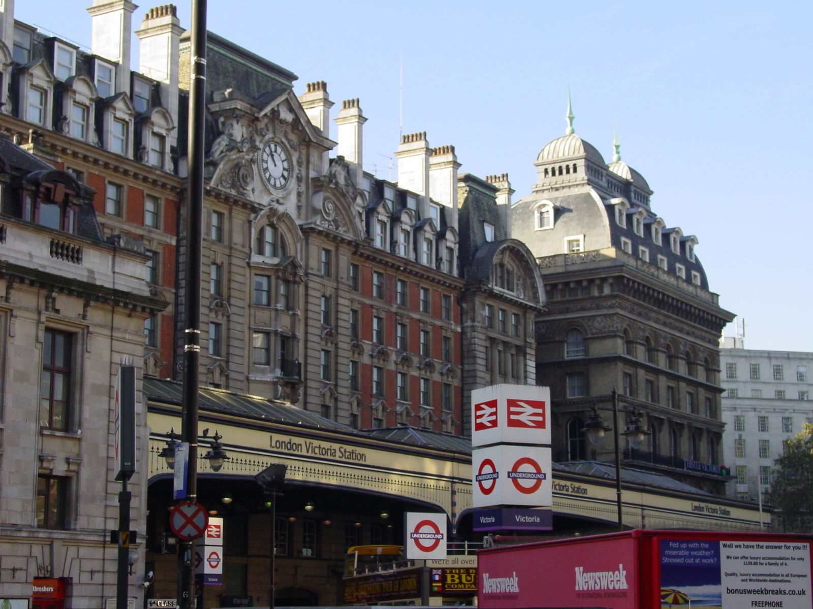 London Victoria Station as seen from Wilton Road. Taken by User:Canley on 14 November 2005.